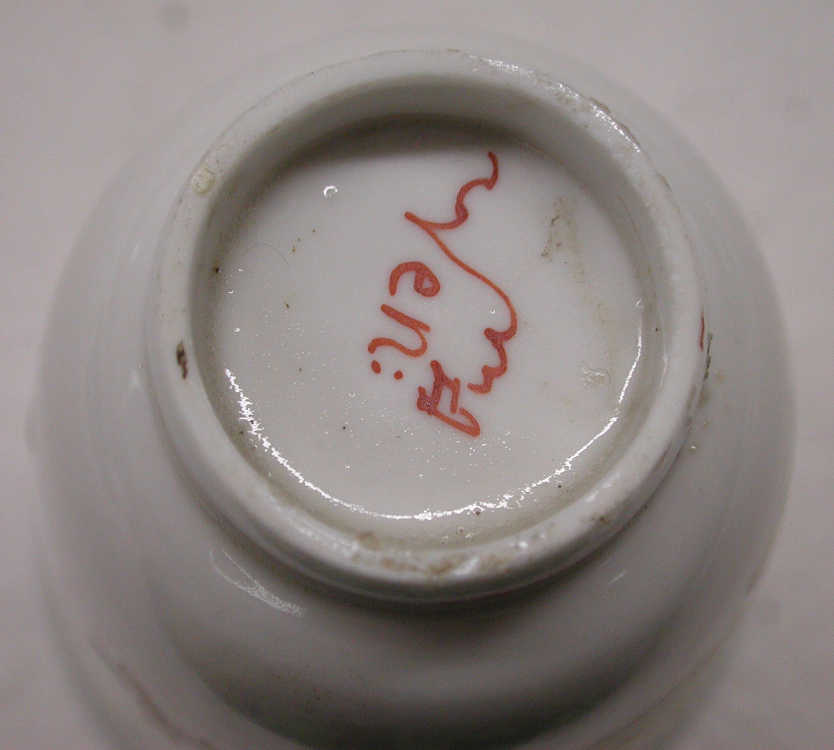 Italian, Venice; Beakers; Ceramics-Porcelain